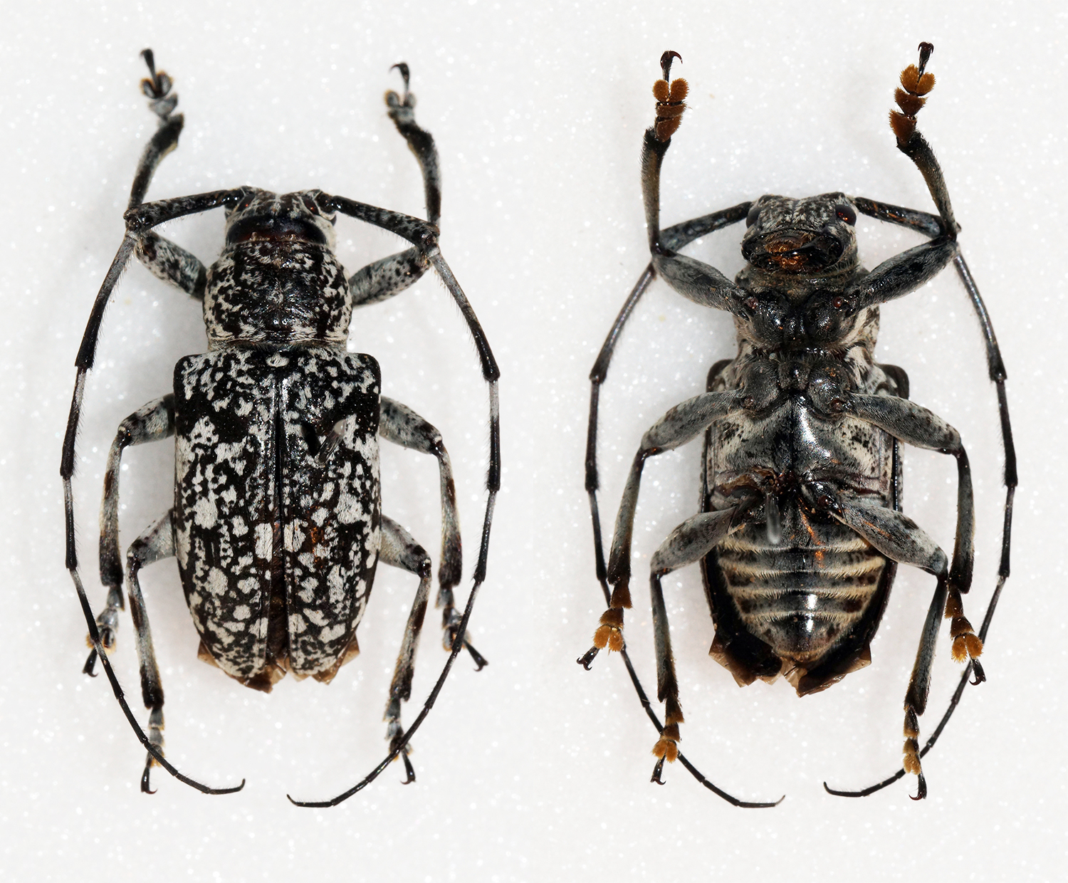 Heller,1923 Sex: Male Data: 06-2014 - Mt Halcon - Mindoro - Southern Luzon - Philippines Size: 18mm